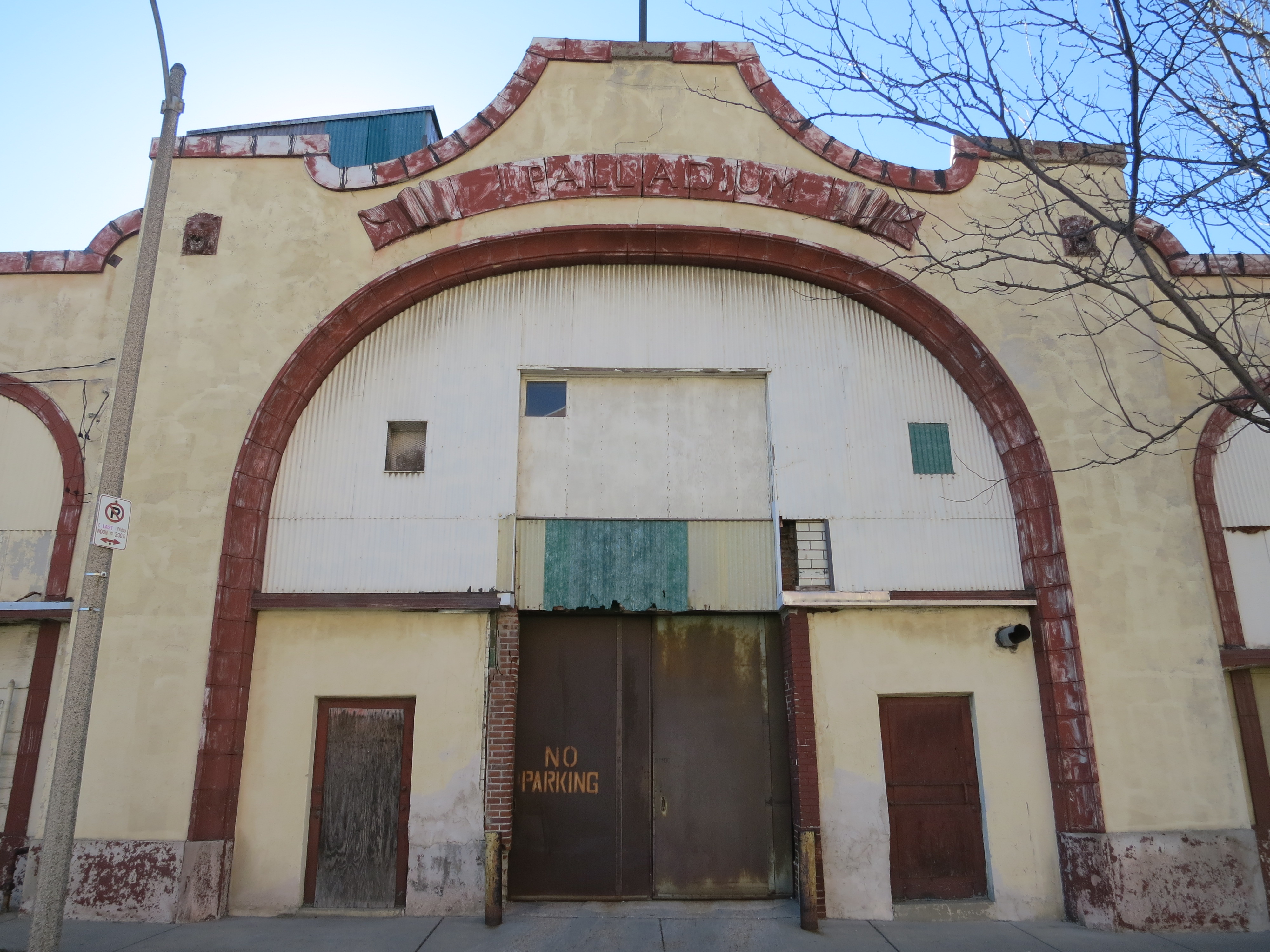 The Palladium